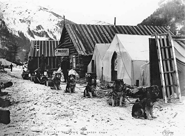 Sheep Camp on the Chilkoot trail during the Klondike Gold Rush. Advertisement on log cabin reads: "The Mascot. Hot drinks and meals, lunches and beds." Caption on image: "The favorite dog team of Sheep Camp"